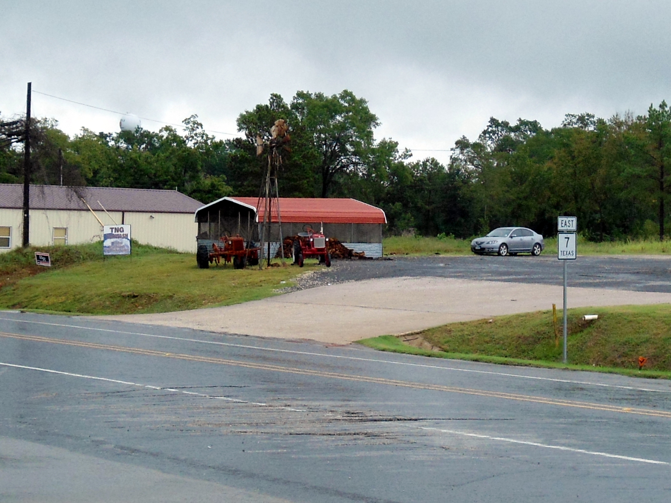 Short shot of SH 7 in Centerville, Texas